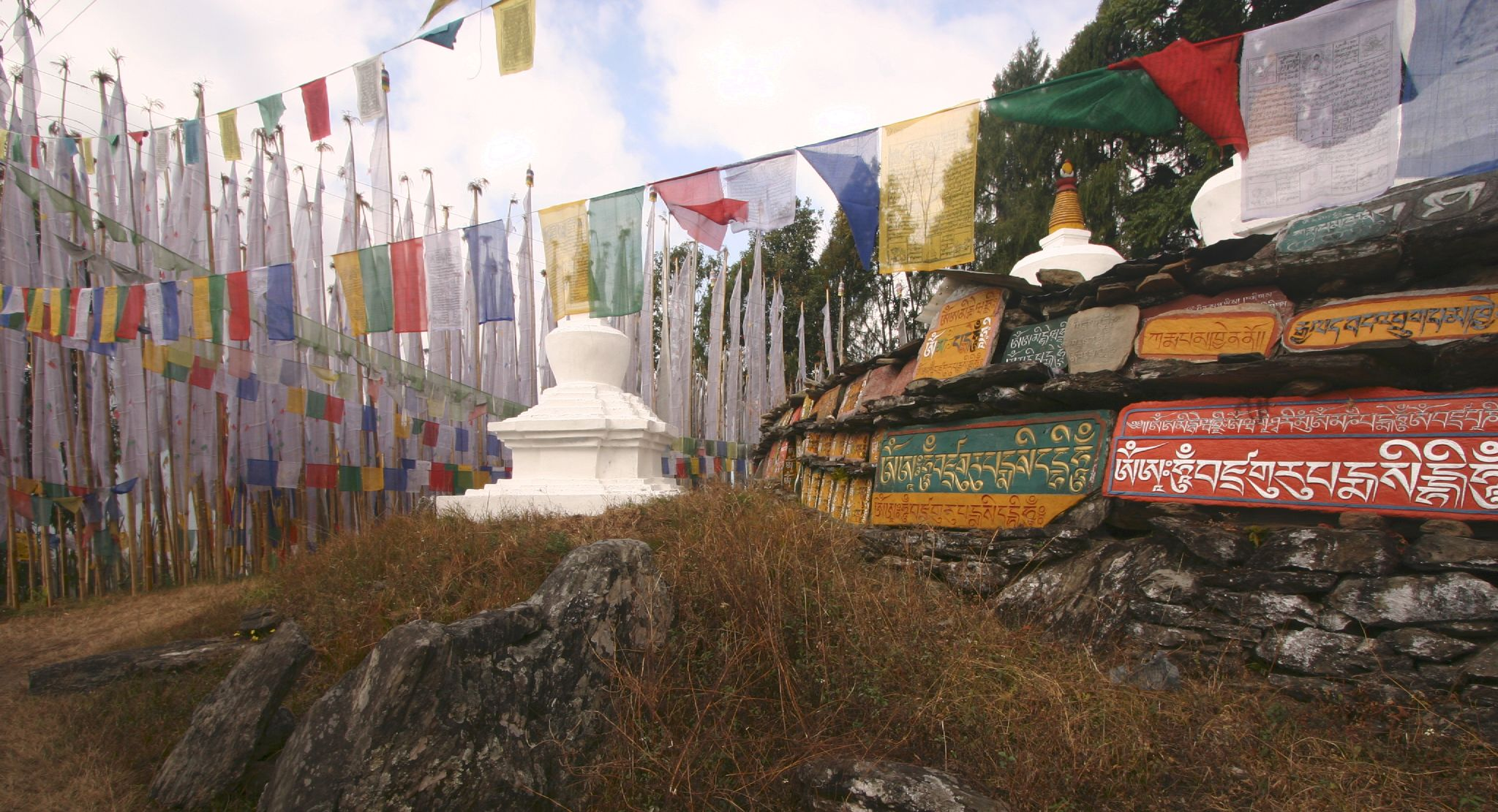 Tashiding Monastery. This important monastery belonging to the Nyingmapa order was built on top of a hill that looms up between the Rathong river and the Rangit river, where a rainbow emanating from Mount Khangchendzonga came to an end. At first only a small Lhakhang was built by Ngadak Sempa Chempo inthe 17th Century. The main monastery was built by Pedi Wangmo during the reign of Chakdor Namgyal and some of the statues built then still exist. Carved skillfully on flagstones surrounding the monastery are holy Buddhist mantras like "Om Mane Padme Hum" .